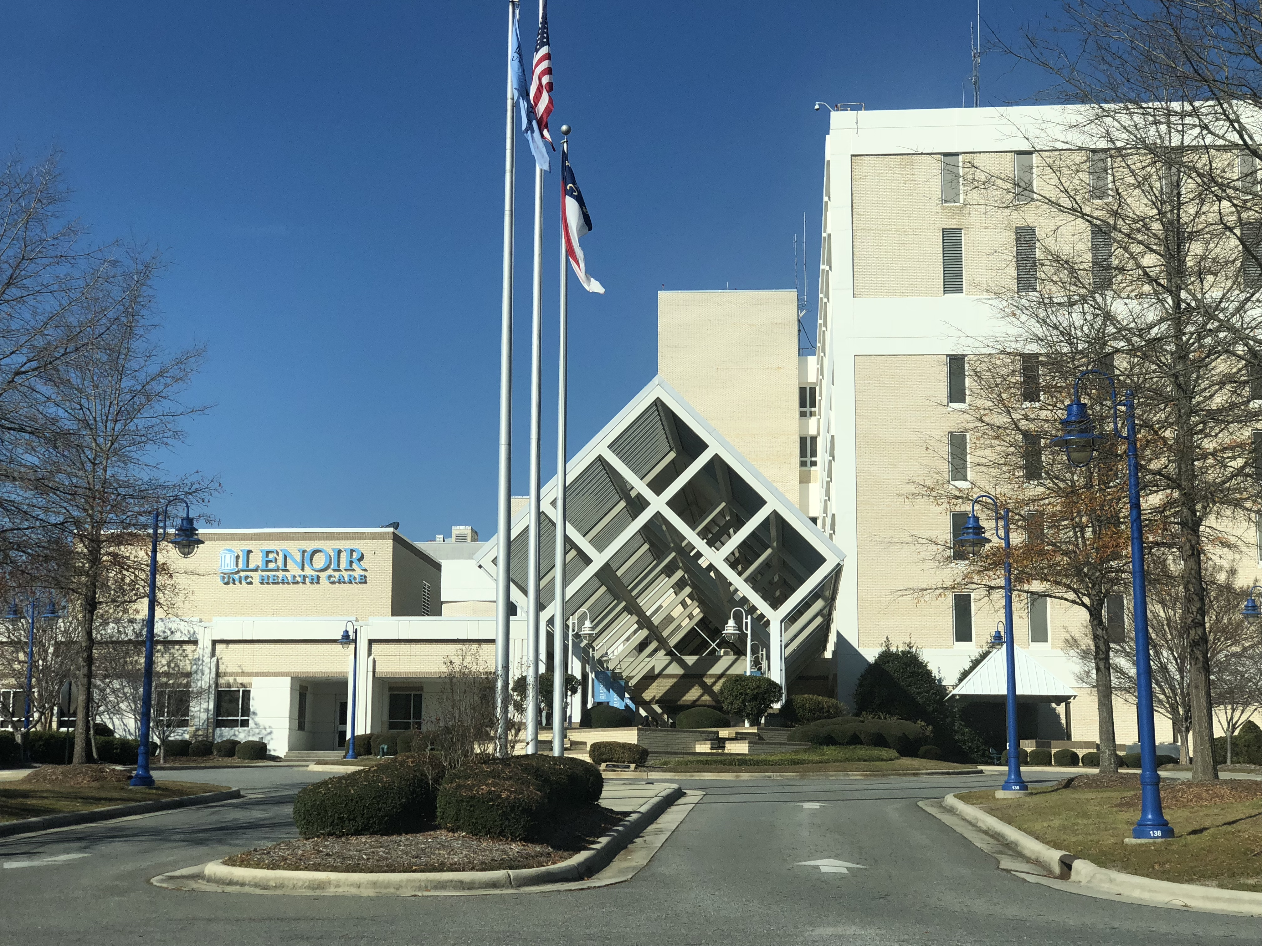 Front entrance to UNC Lenoir Healthcare